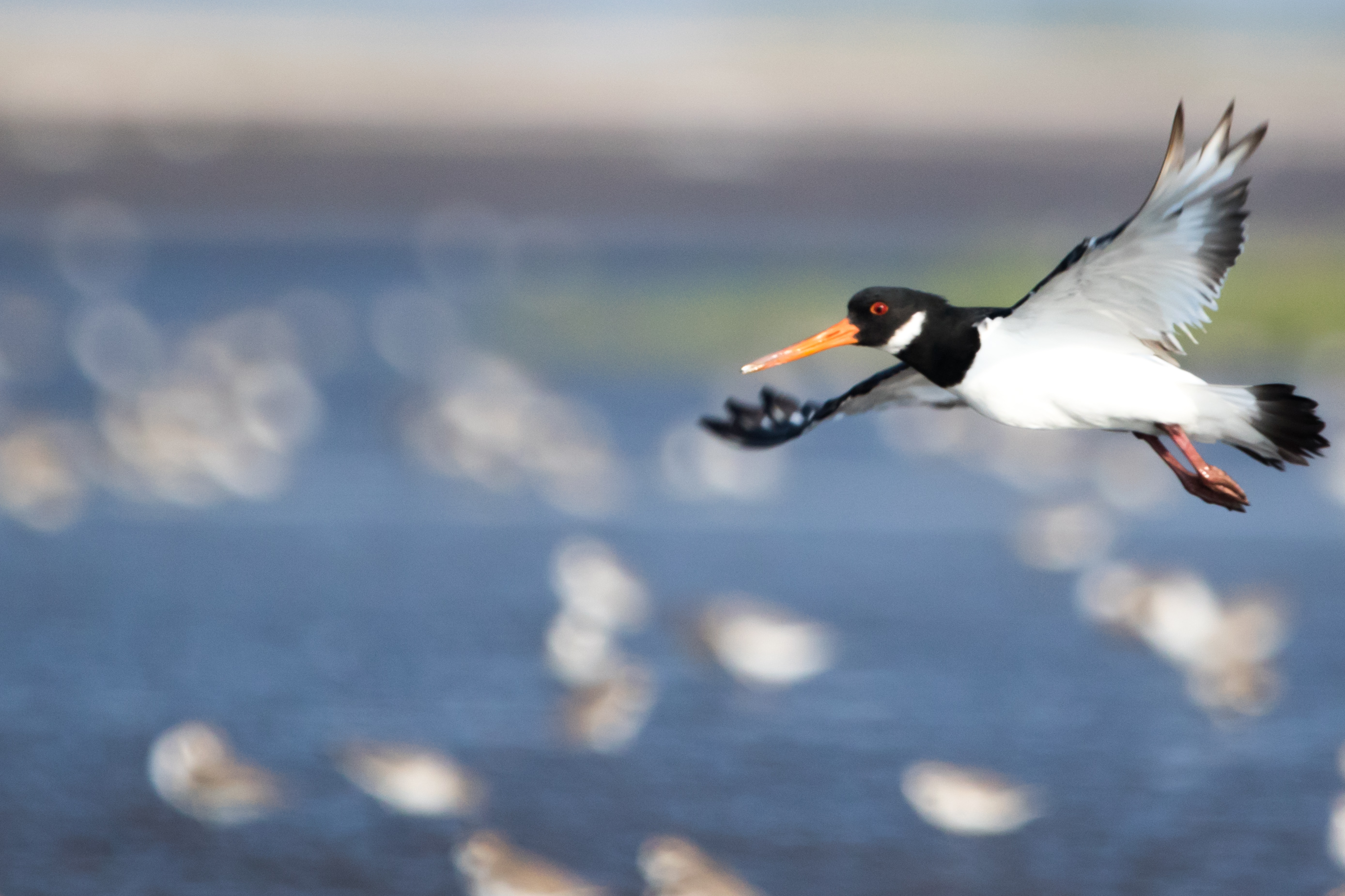 EURASIAN OYSTERCATCHER IN FLIGHT